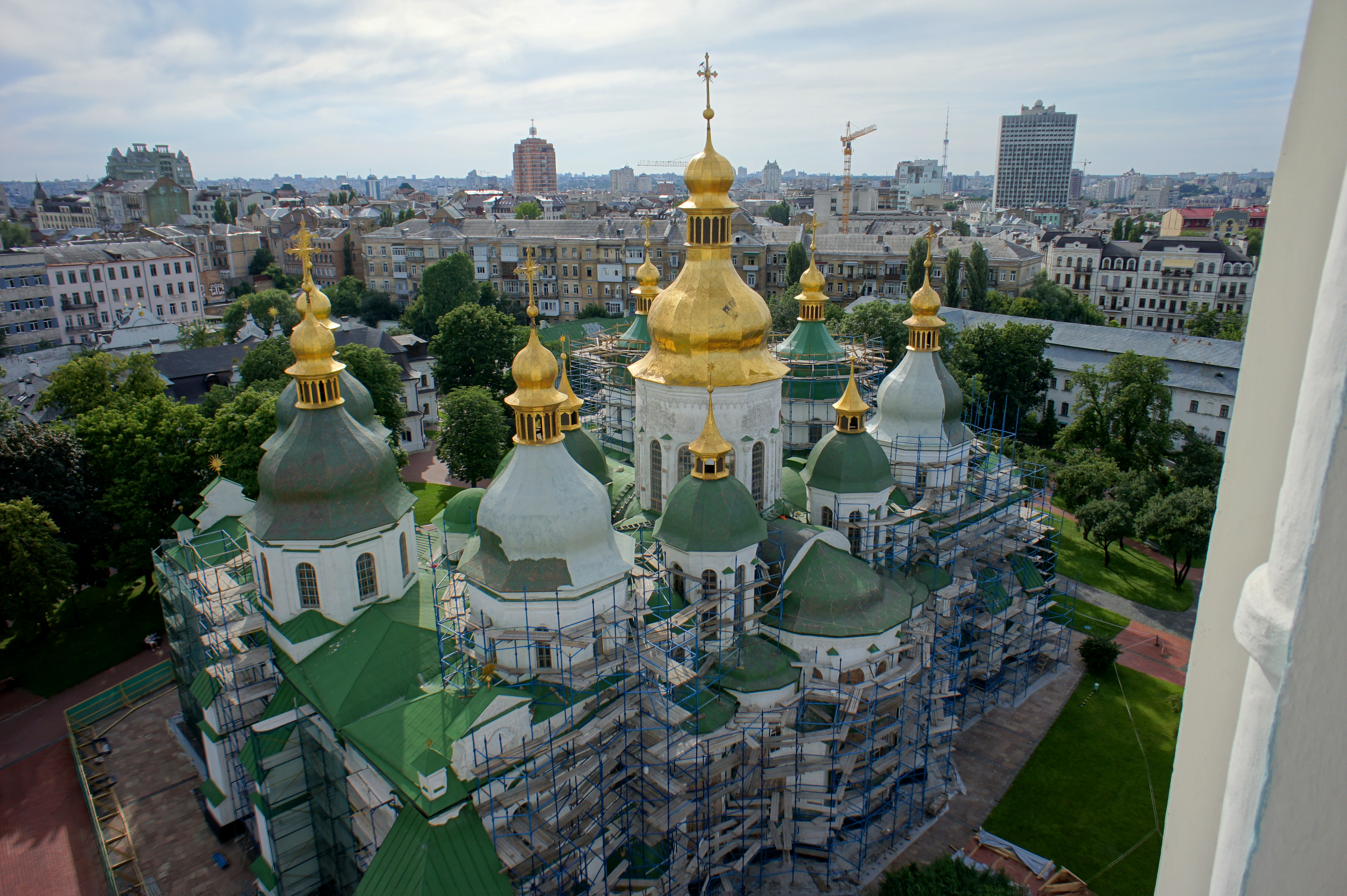 Saint Sophia Cathedral in Kiev. View from bell tower.